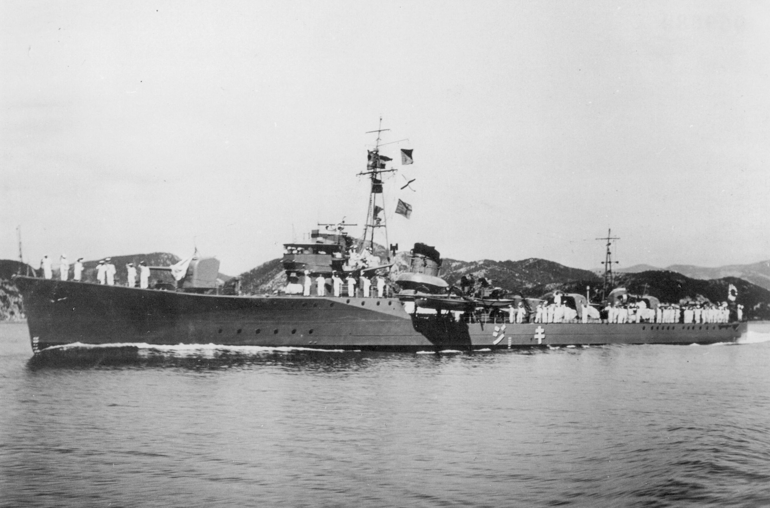 Inperial Japanese torpedo boat Kiji (雉 service 1935-1947), later Soviet destroyer Vnimatel'nyy (service 1947-1957).